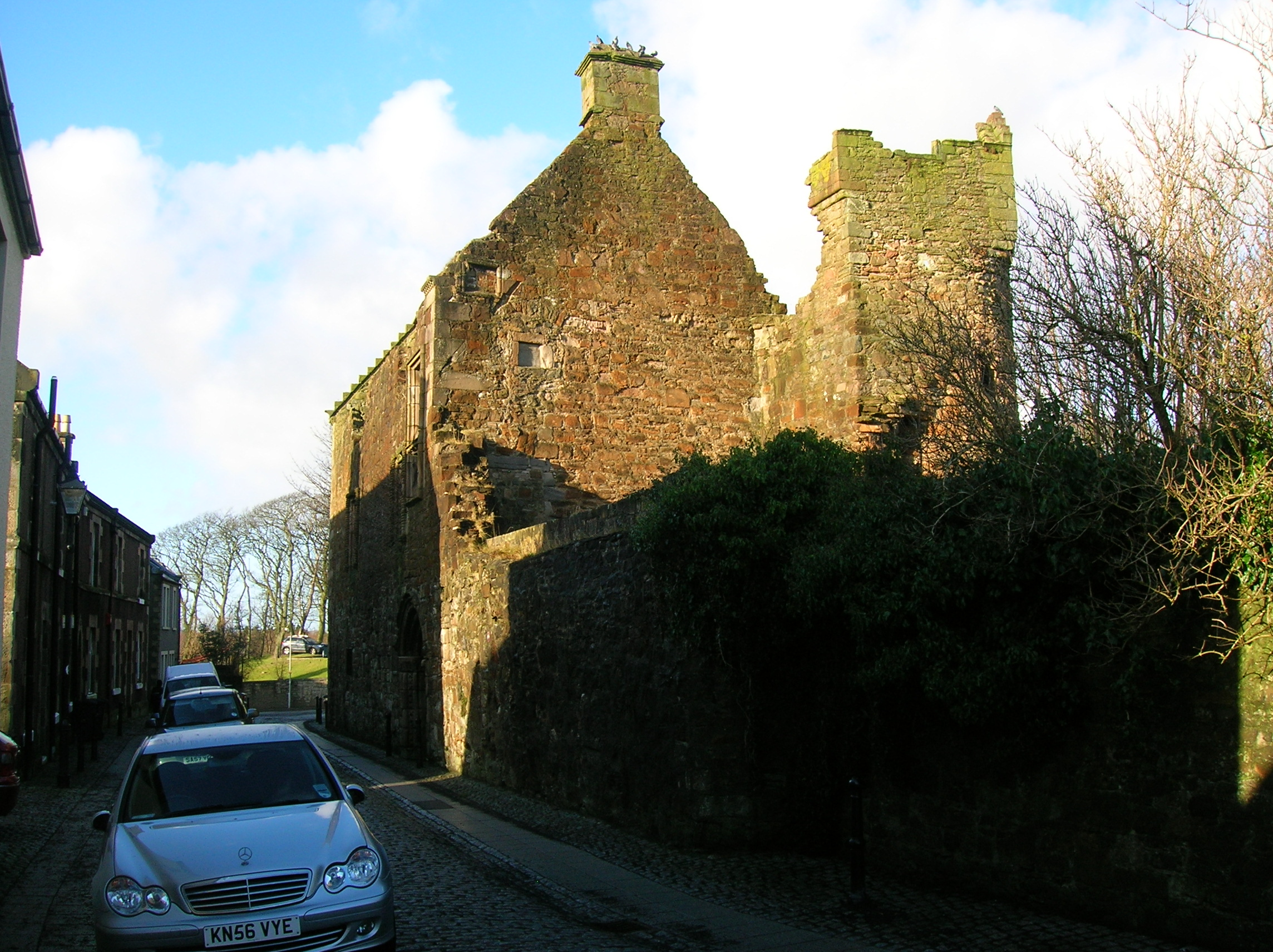 Seagate Castle and Street from the East. Irvine, North Ayrshire, Scotland